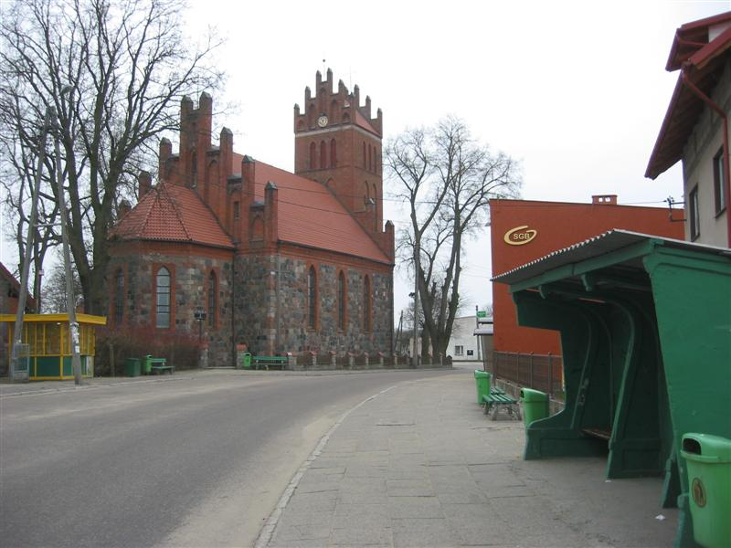 Osiek - village centre with the neogothic catholic church